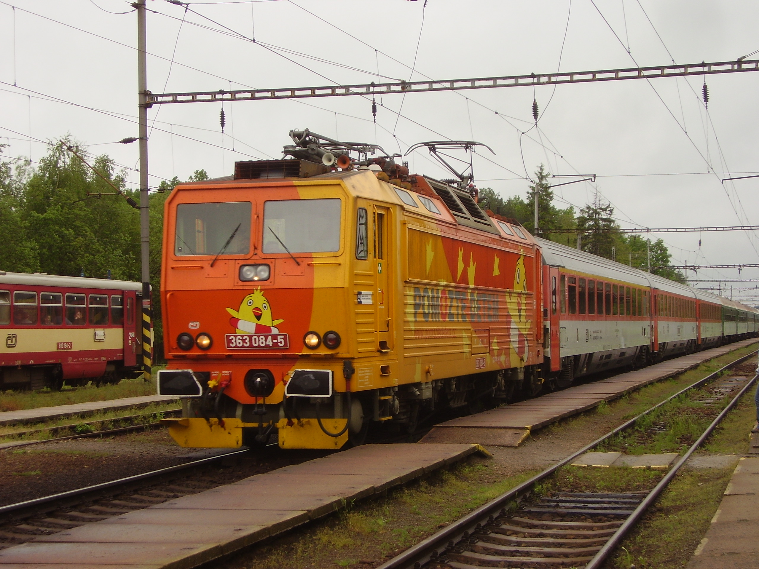 Locomotive 363, Olbramovice train station